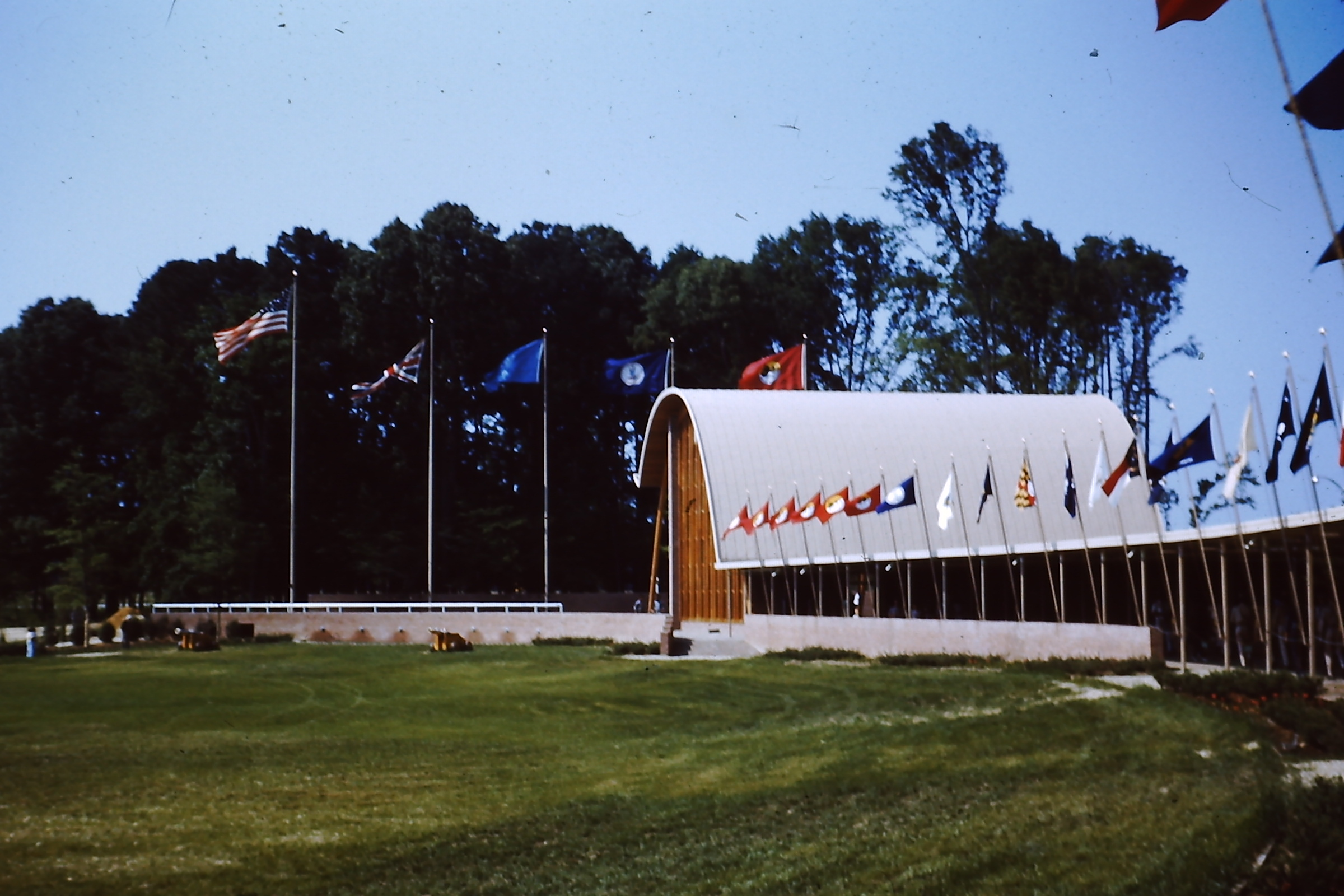 Exposition Hall built for the 350th anniversary (1957) of the founding of Jamestown, Virginia. Part of what would become the Jamestown Settlement museum.